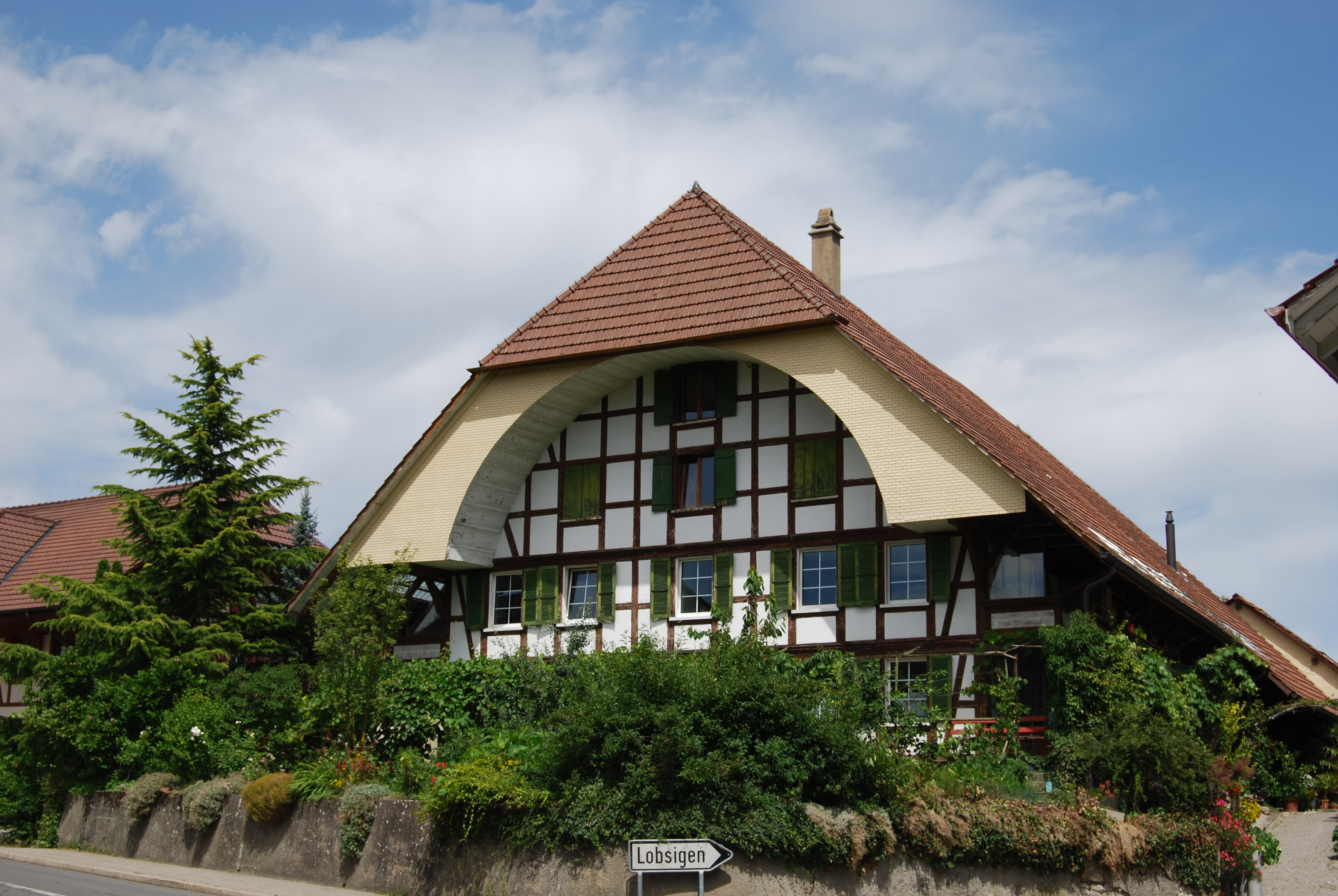 Timber framing house at Radelfingen, canton of Bern, Switzerland